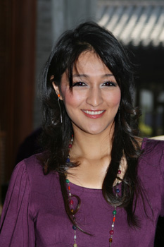 Miss Nepal 2007 Sitashma Chand. Photo taken in Miss World 2007, Sanya 1/12/07.